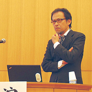 Kousaku Okubo. Molecular biologist, physician, Professor of The Graduate University for Advanced Studies of Japan(National Institute of Genetics of Japan). Major:genetics. He is founder of Anatomography. Talking at the conference held by DBCLS, and supported by Creative-Commons-Japan at Yayoi hall, University of Tokyo, Japan.